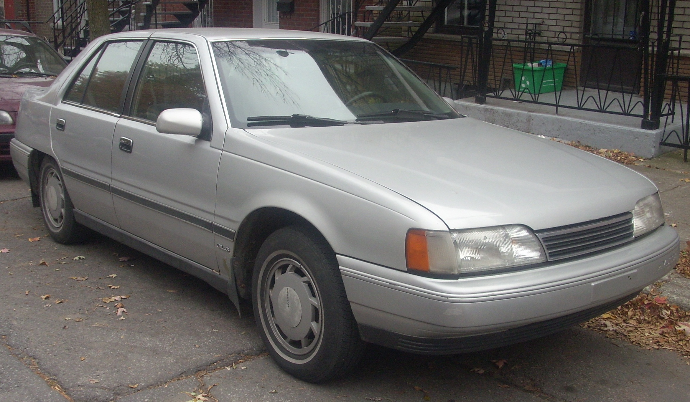 1988-1989 Hyundai Sonata photographed in Montreal, Quebec, Canada.